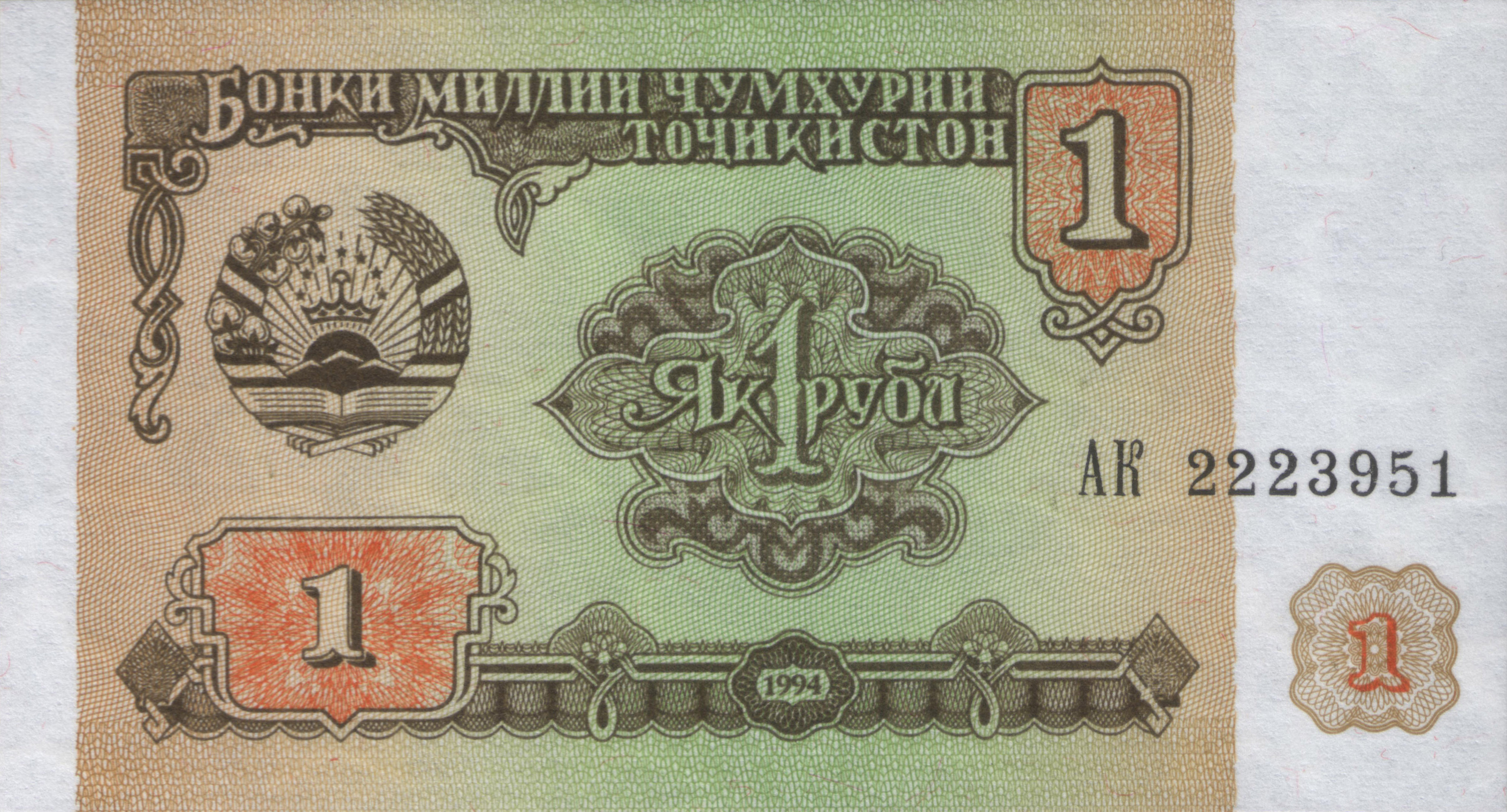 1 rouble of Tajikistan (1994)